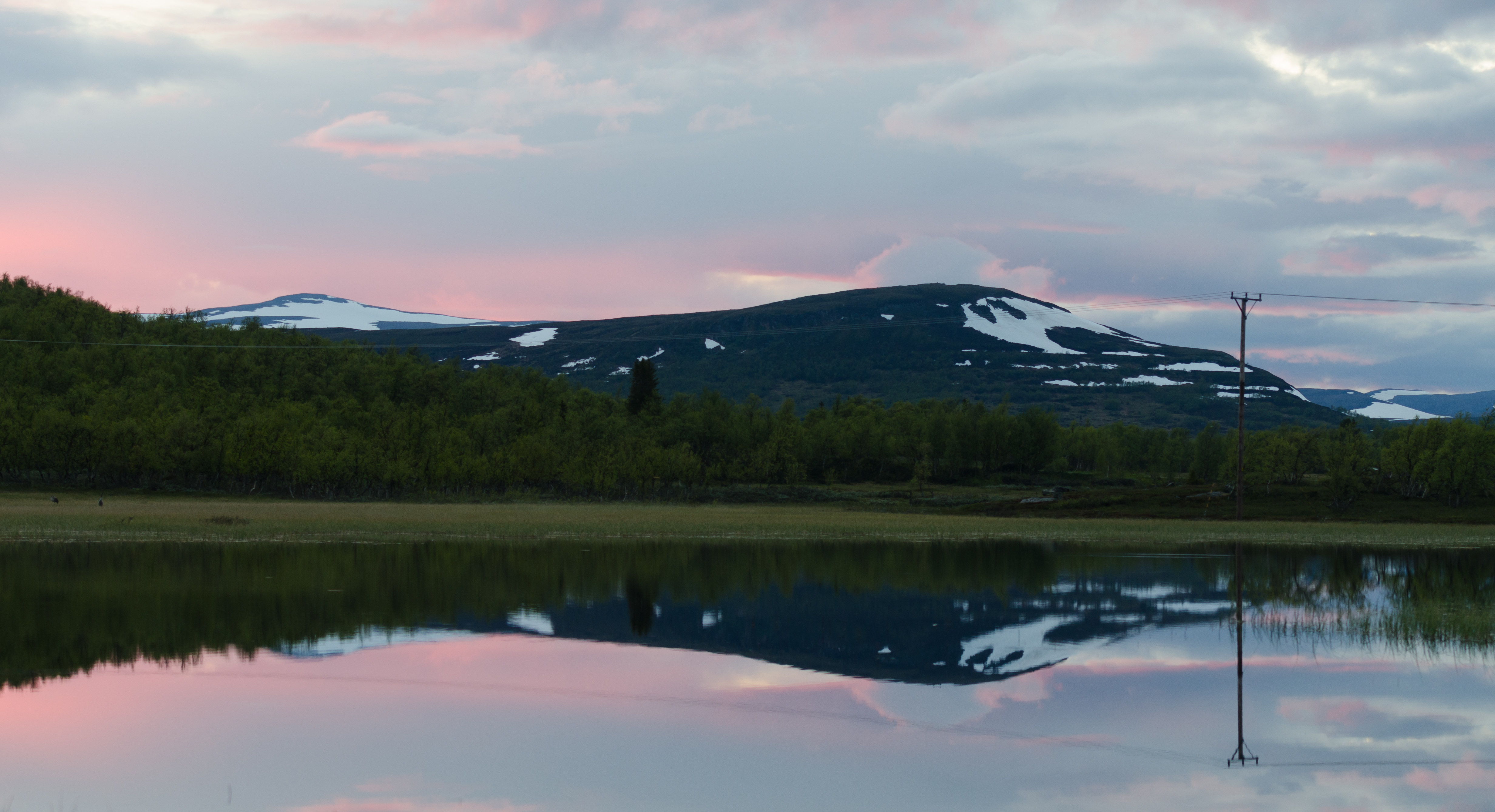 Mount Vargstjärnsstöten seen from small lake in Torkilstöten.